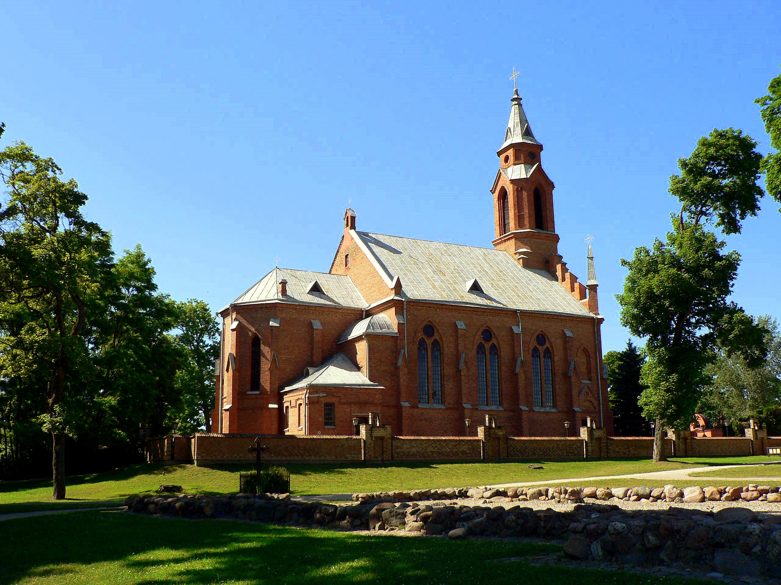 The new church and the ruins of the old church in Kernave, Lithuania.